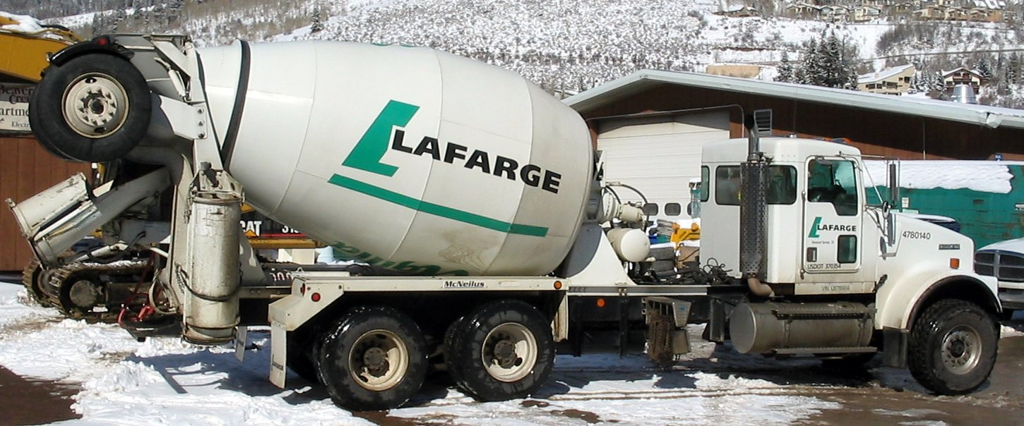 A cement mixer. David Benbennick took this photograph on February 8, 2005 at 2:23 PM (local time) or 21:23 UTC, in Vail, Colorado. In the background is the vehicle maintenance garage for Vail Resorts, where they repair snowcats.